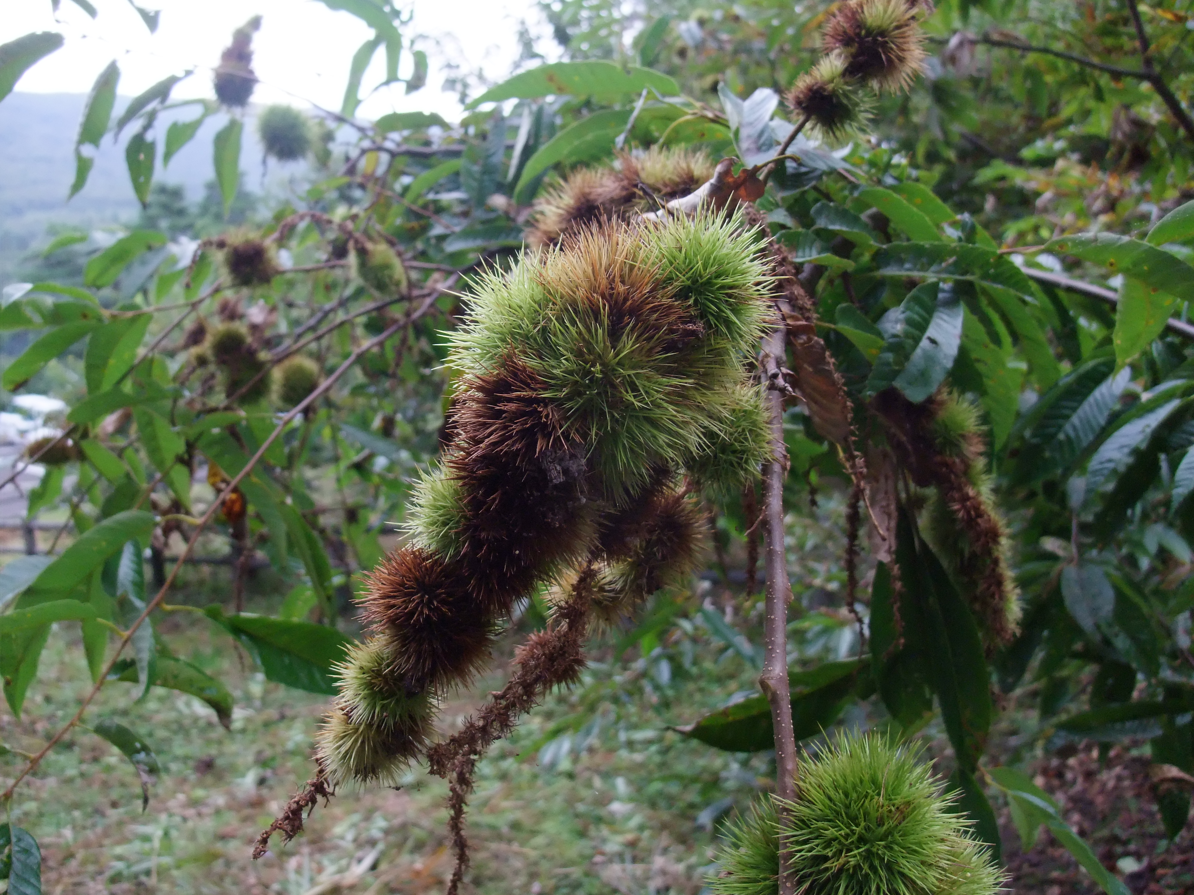 KAZUKURI is a variable species of the chestnut.